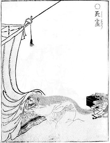 Shiryō (死霊) from the Gazu Hyakki Yakō (画図百鬼夜行)